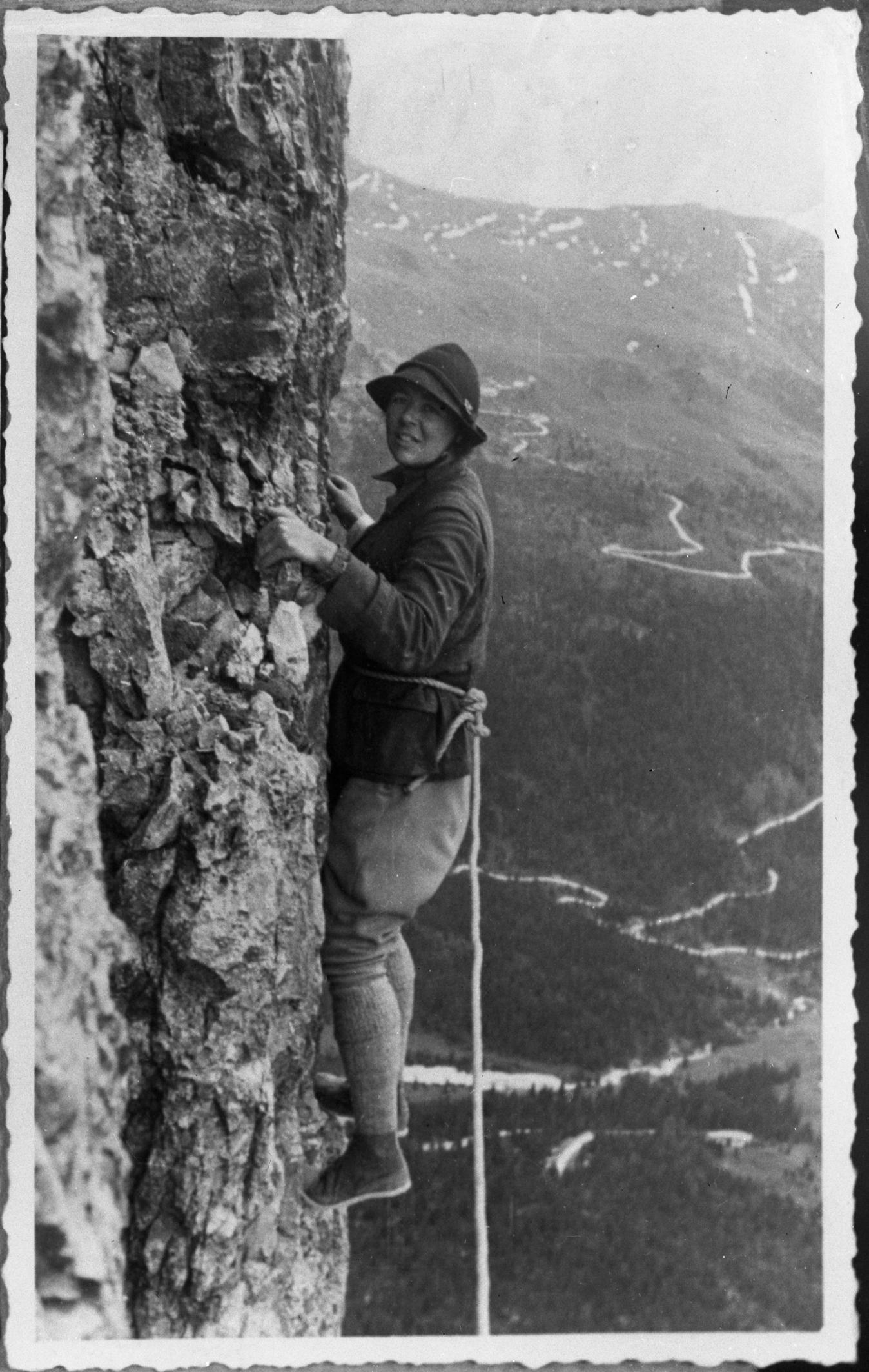 Reid climbing the dolomites in Italy - Passo di Sella below